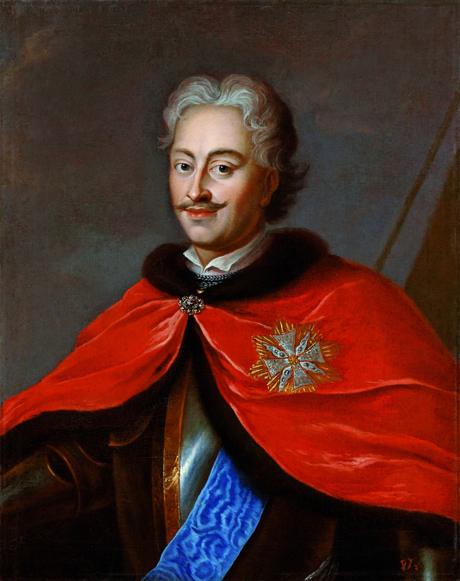 Portrait of Stanisław Ernest Denhoff (c.1673-1728)